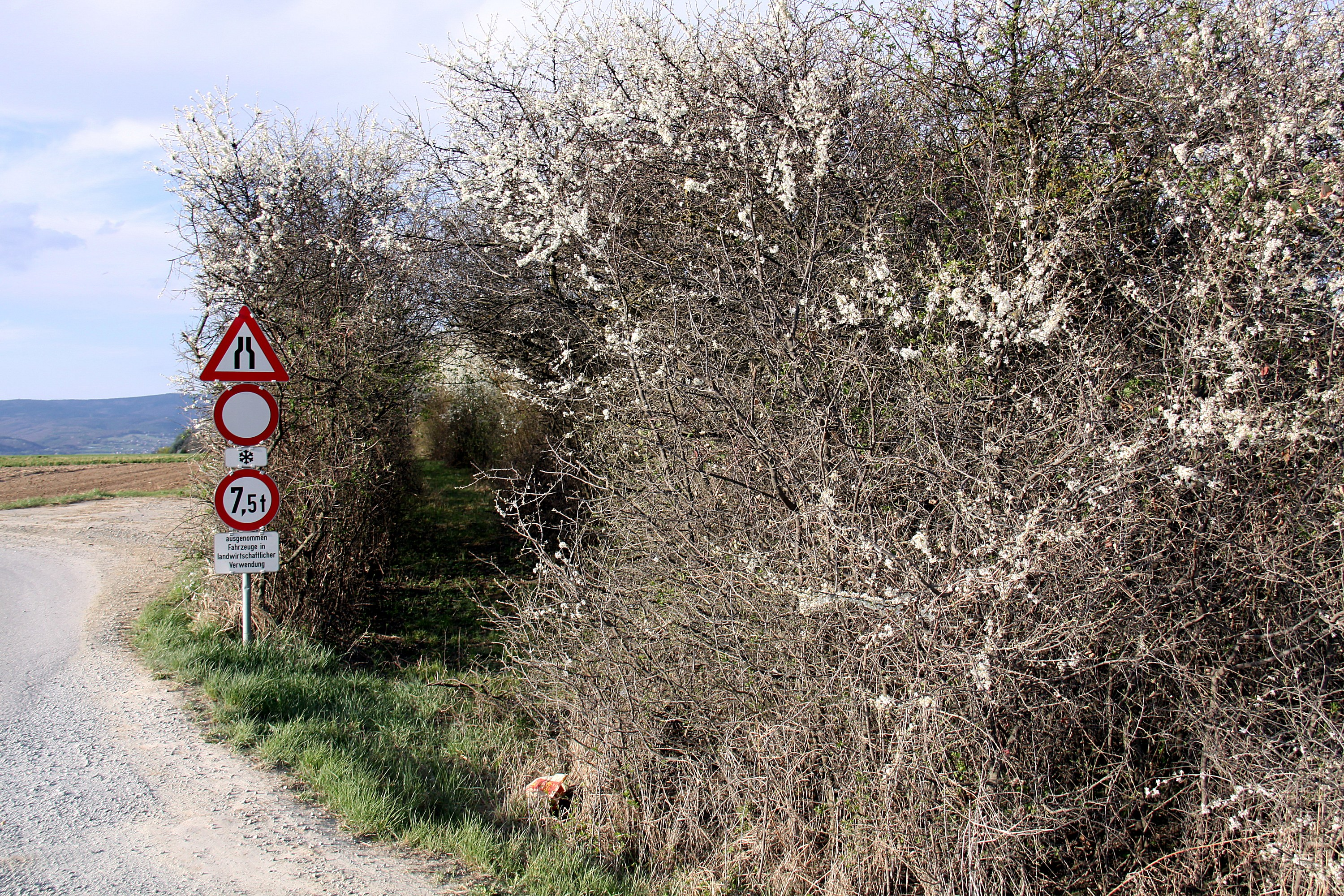 Schandorf - Border Austria/Hungary between Schandorf and Narda